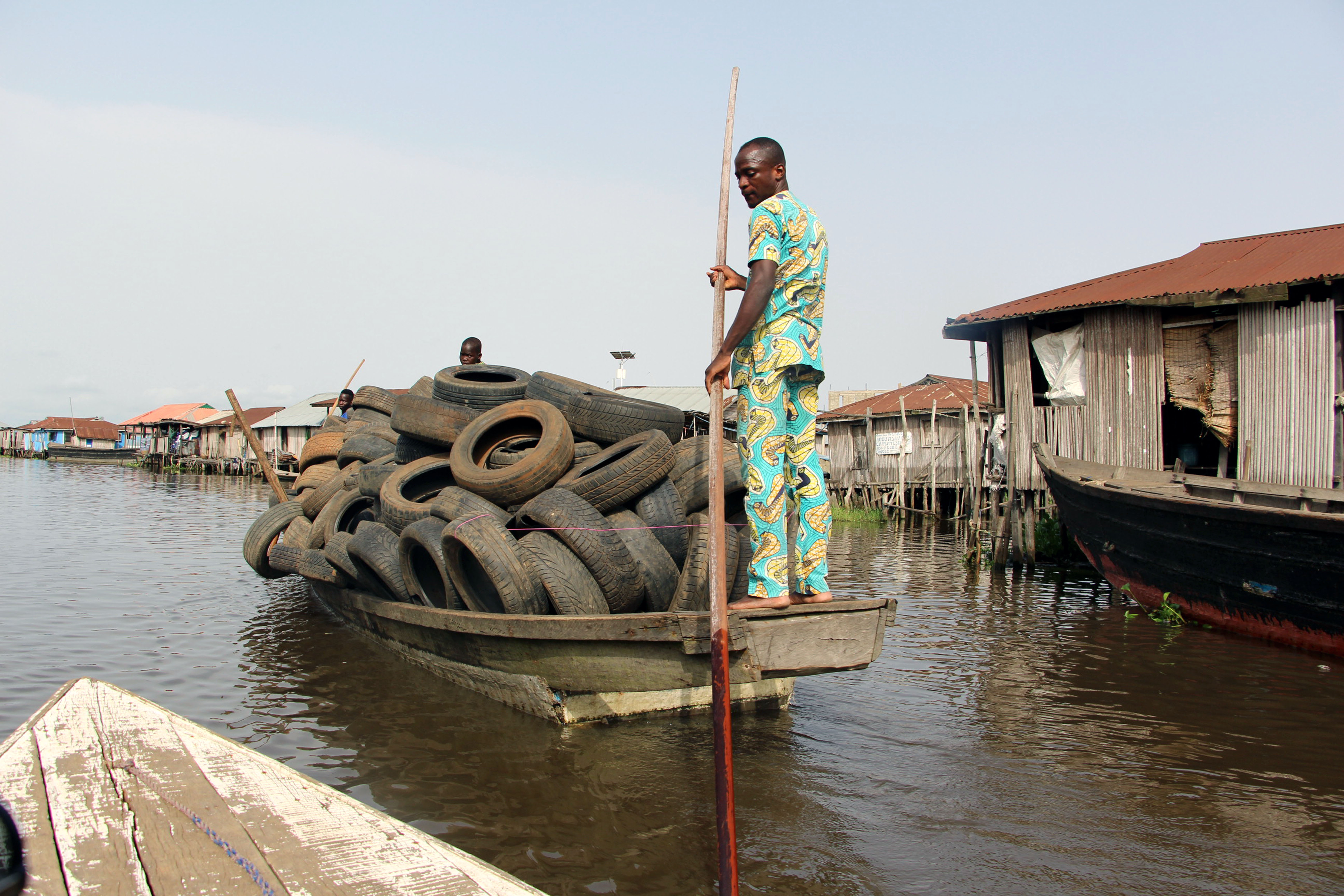 he walks on the lake selling his tires to the vulcanizers This is an image with the theme "Africa on the Move or Transport" from: Benin